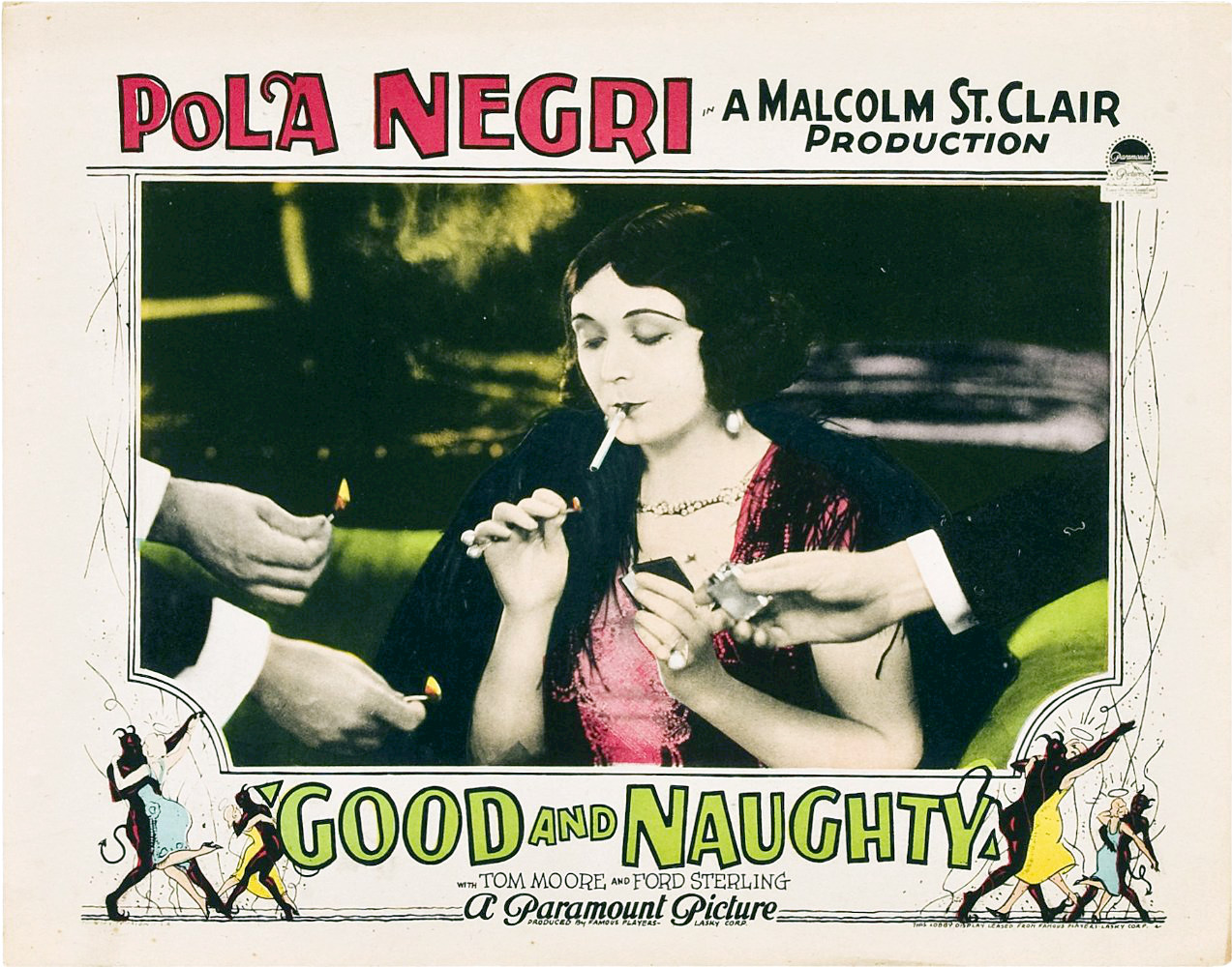 Lobby card for the American comedy romance film Good and Naughty (1926). There are no copyright marks on the card. At bottom left is Country of origin USA. In middle is Produced by Famous Players Lasky Corp. At bottom right is This lobby display leased from Famous Players Lasky Corp.